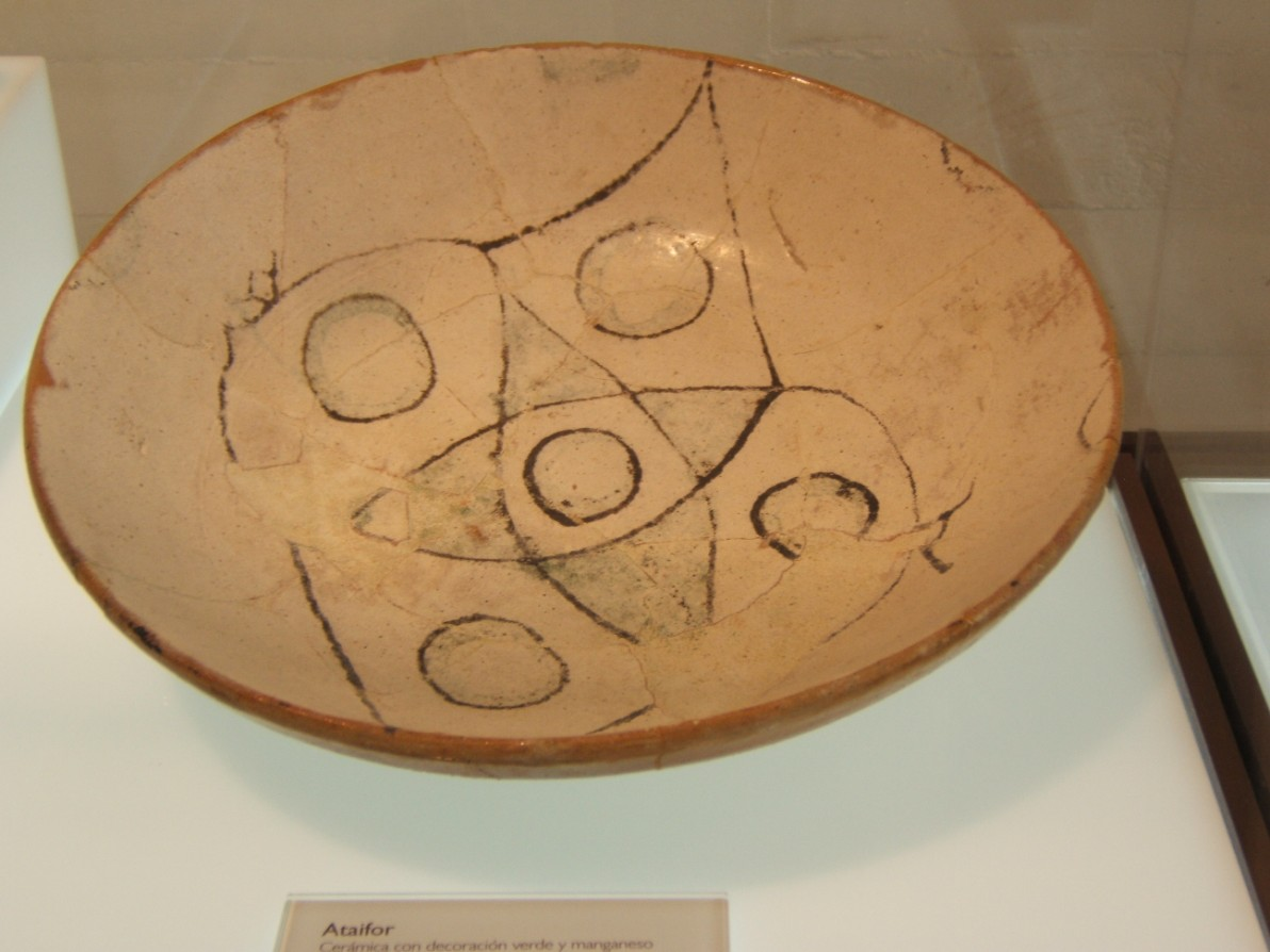 Ataifor. Museum of Medina Azahara (Córdoba).